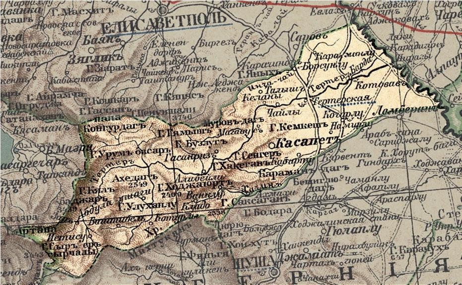 Uyezd of Javanshir in Yelizavetpol gubernia